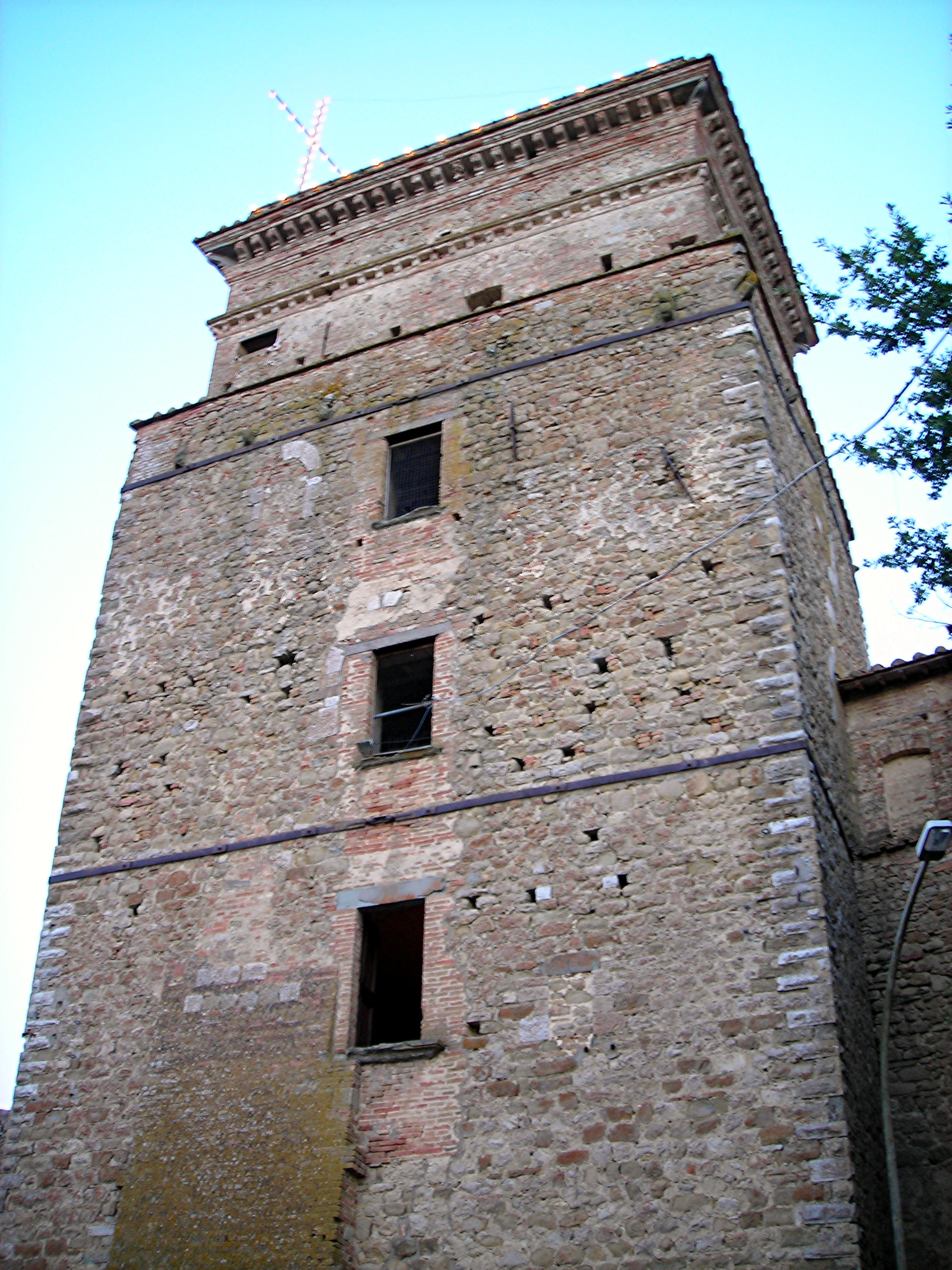 Tower of Sant'Elena, Marsciano, Perugia, Umbria, Italy